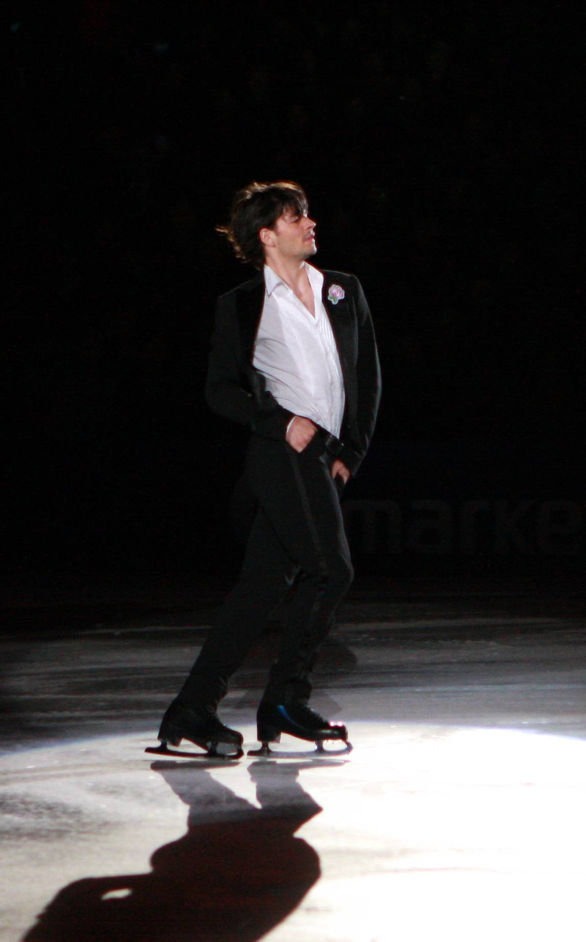 Stephane Lambiel at the 2009 Festa On Ice.